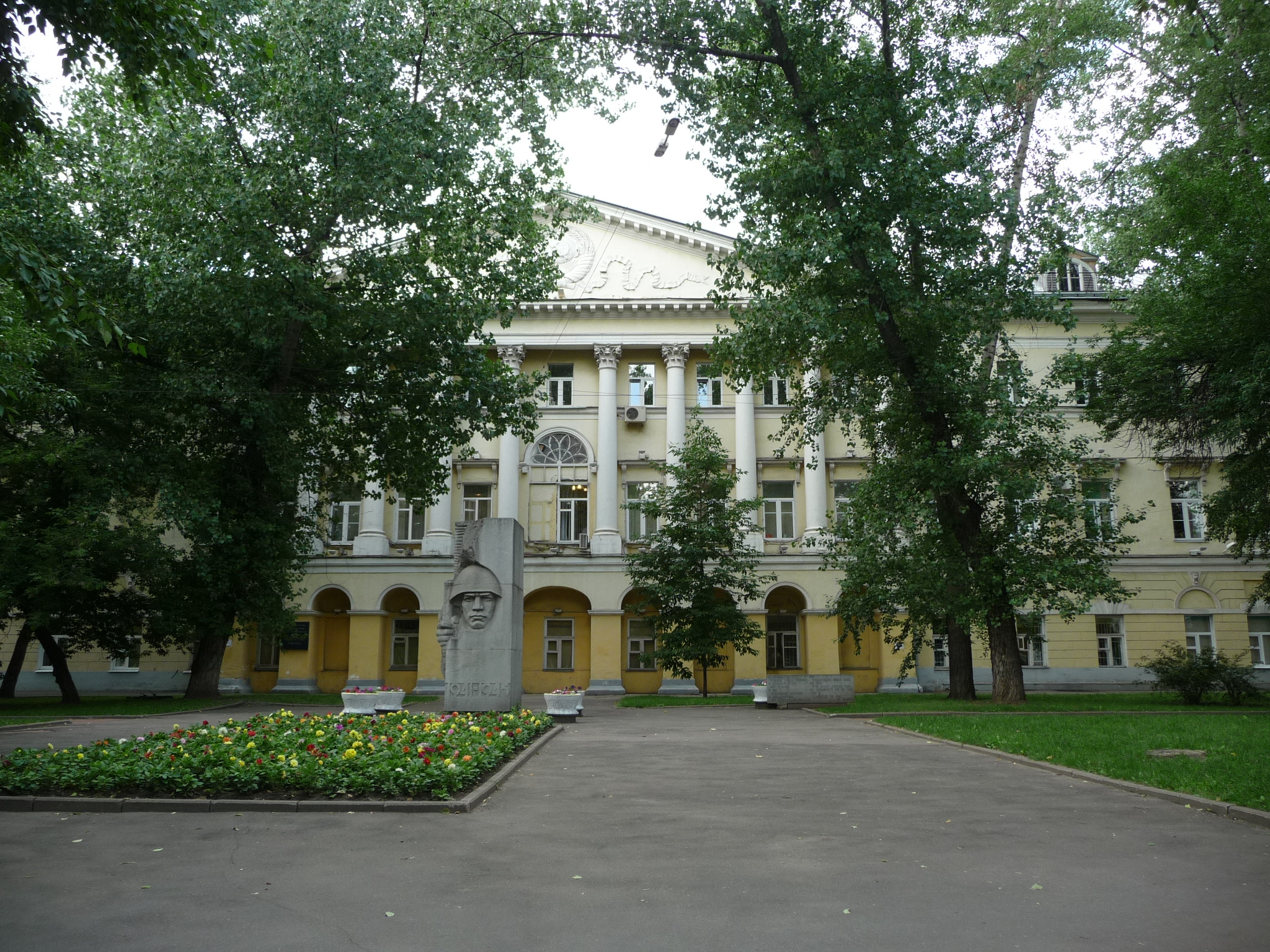 LingUnivMoscow-p1030329.jpg